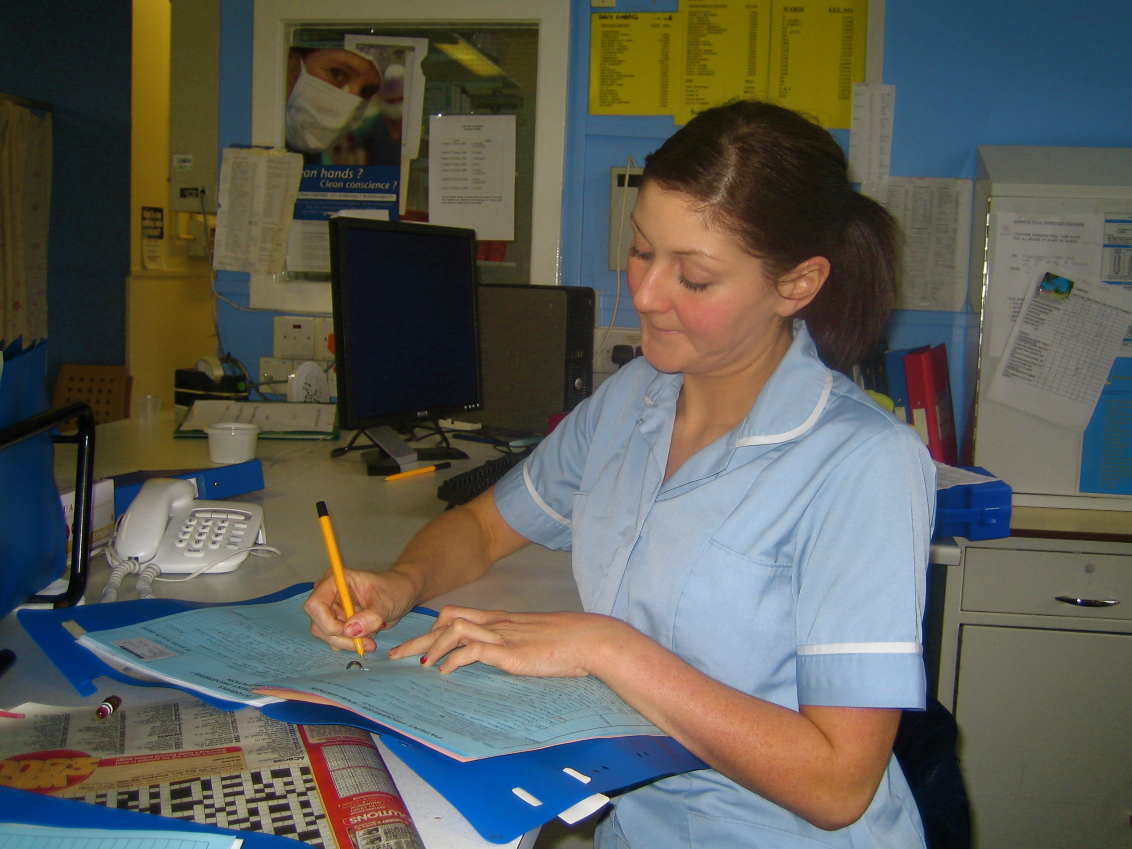 British nurse in nurses' station.